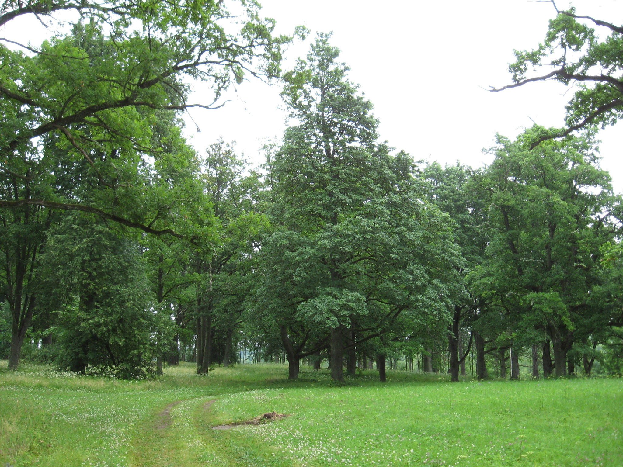 Suure-Rõngu mannor's park